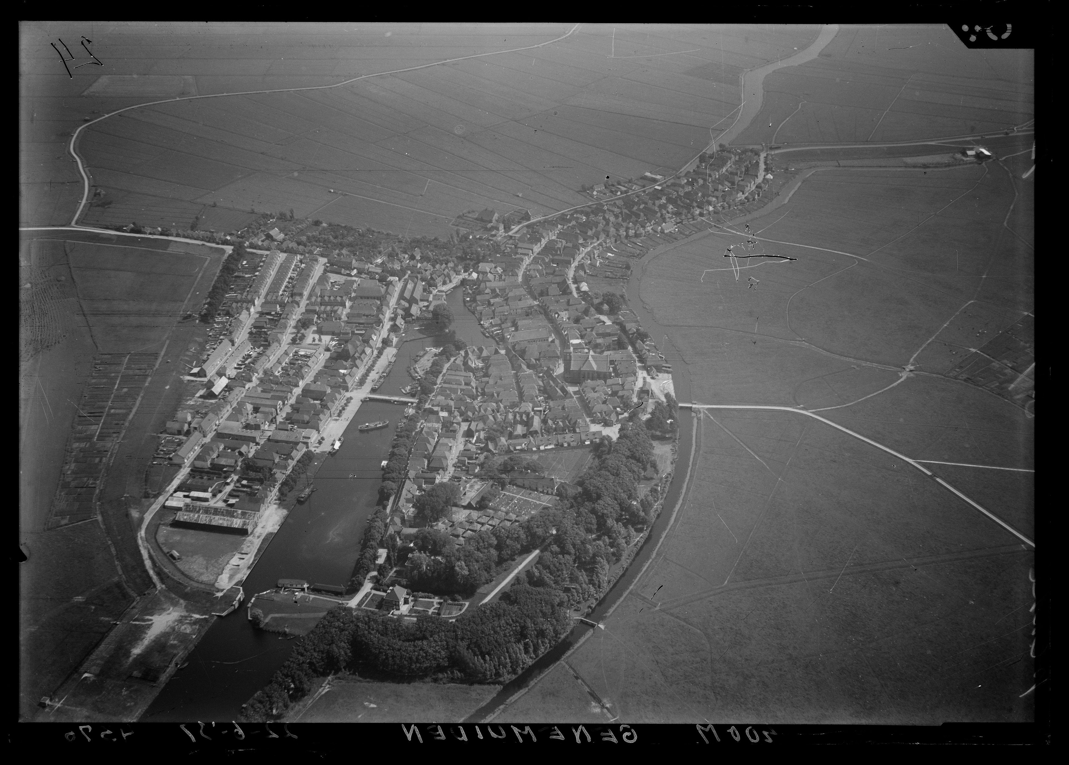 Aerial photograph of Genemuiden, The Netherlands